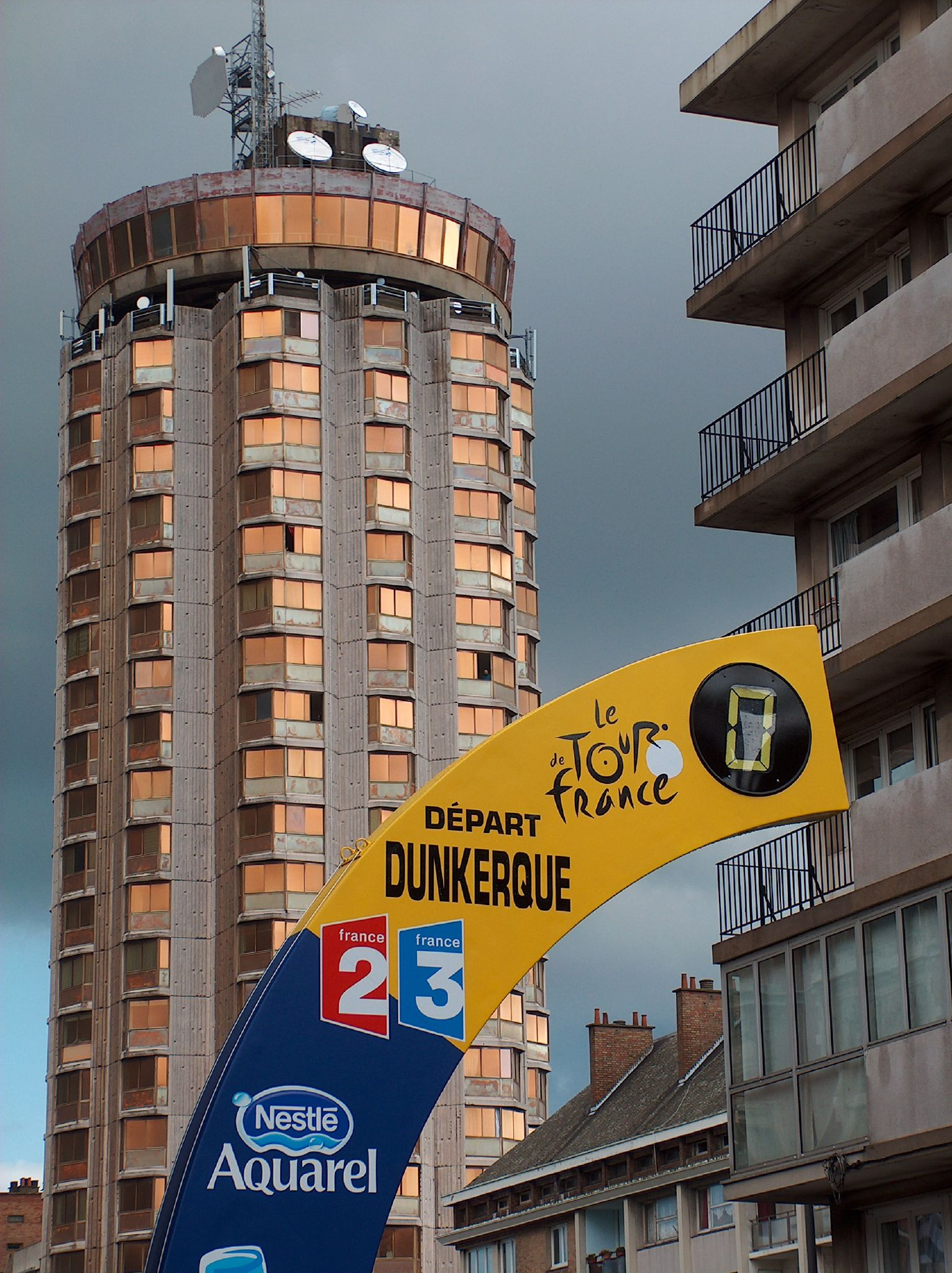 Depart of the 2nd stage of the Tour de France 2007